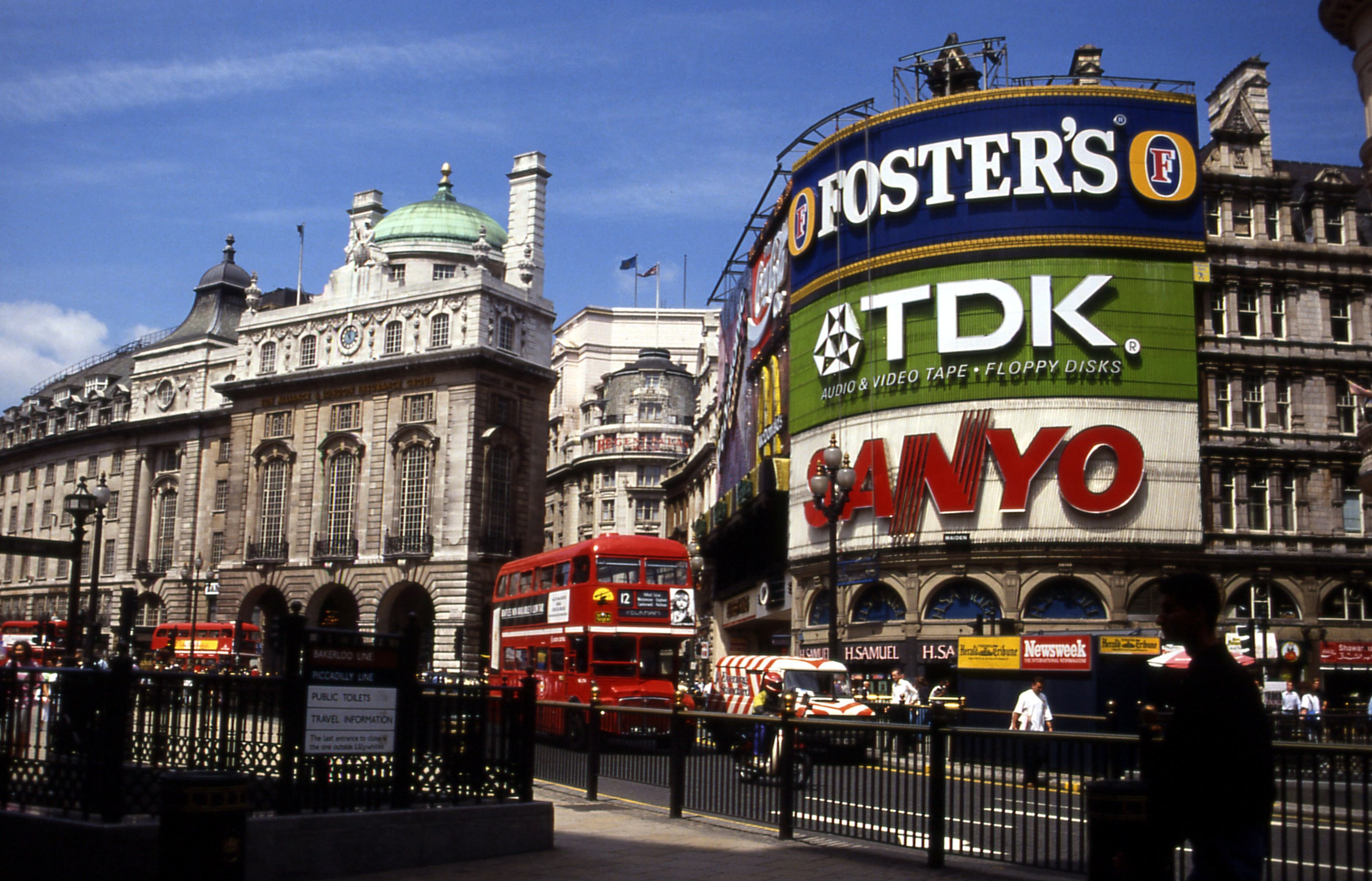 Piccadilly Circus, London, Great Britain